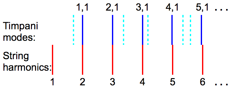 Red: Harmonics of the perceived pitch. Dark blue: Prominent modes of vibration of a kettledrum. Dashed light blue: quieted modes of vibration. Timpani's timbre is determined primarily by the modes of vibration of a stretched membrane and secondarily by the shape of the body. Timpani bodies are shaped such that they are pitched percussion, with the perceived pitch determined by modes being modified to either be close to theoretical harmonics of the perceived pitch or quiet.Howard, David M. (2006) Acoustics and Psychoacoustics, Focal Press, pp. 200-3 ISBN: 0-240-51995-7.